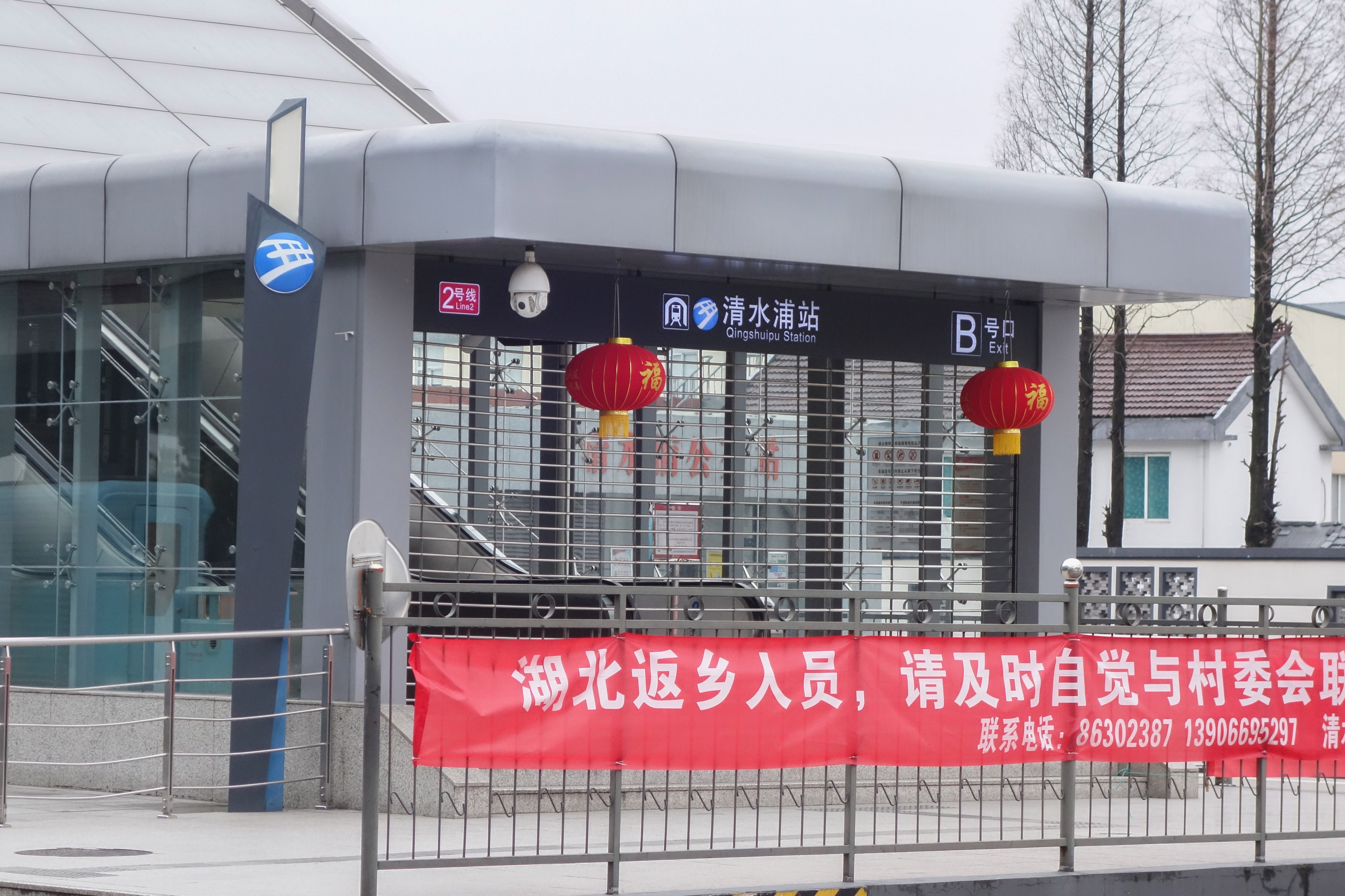 Qingshuipu Station of Ningbo Rail Transit, temporarily closed to control the spread of COVID-19. The slogan can be translated as "for those come from Hubei Province, please contact the village committee in time".